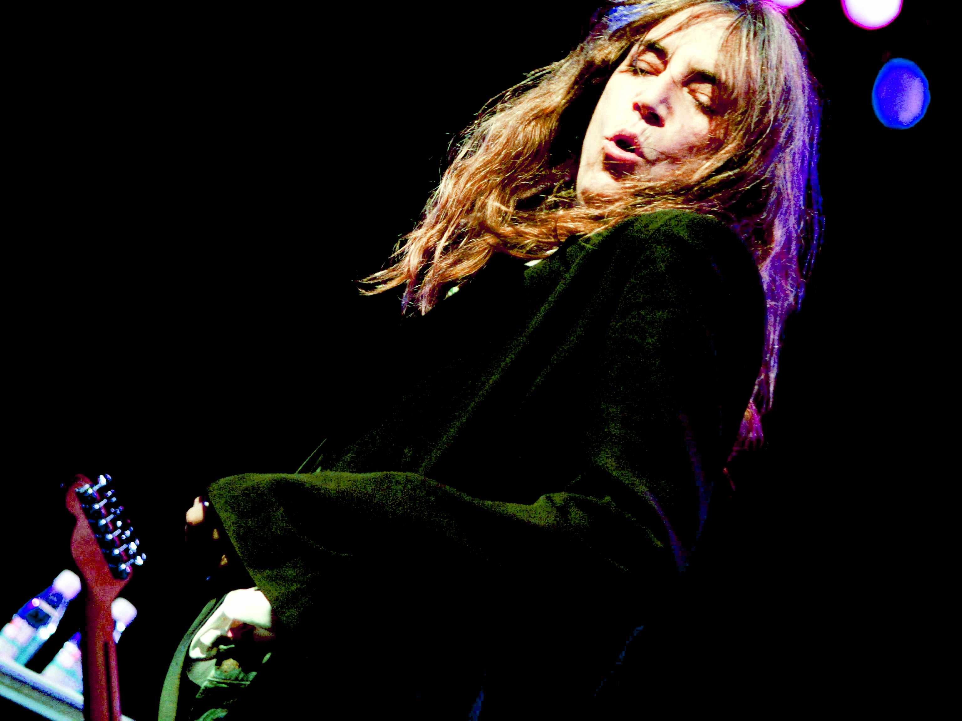 Patti Smith performing at TIM Festival, Marina da Glória, Rio de Janeiro, Brazil.